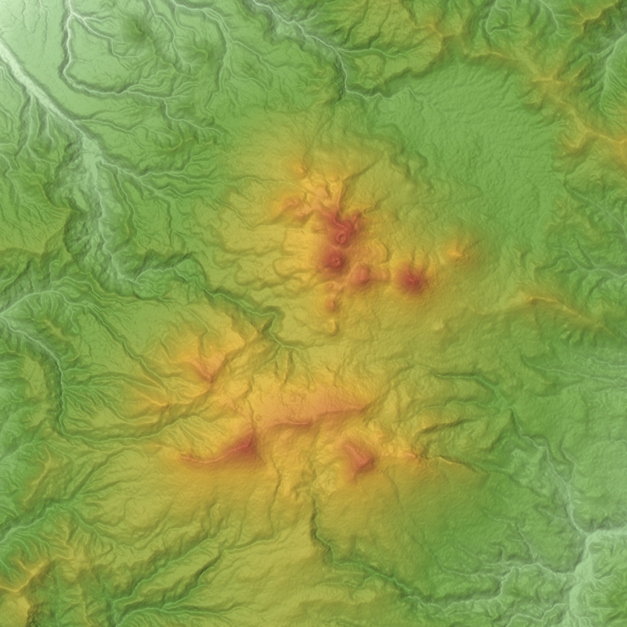 Mount Hakkoda in Aomori Prefecture, Honshu, Japan. Kita Hakkoda Volcano Group (north) Minami Hakkoda Volcano Group (south) Hakkoda Caldera (northeast)